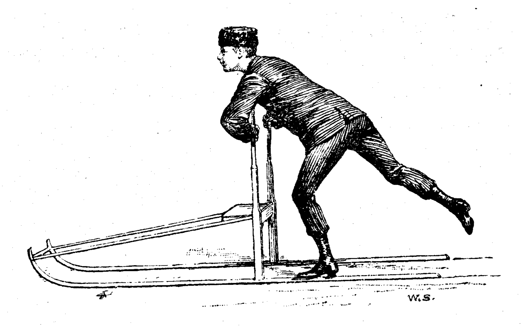 Kicksledge, Sweden